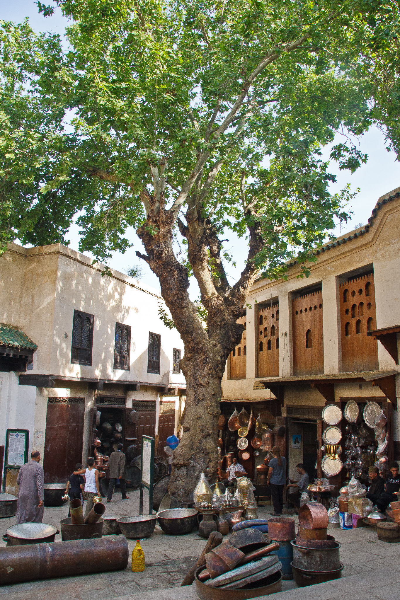 Square that is home to Fez's copper and brass workers